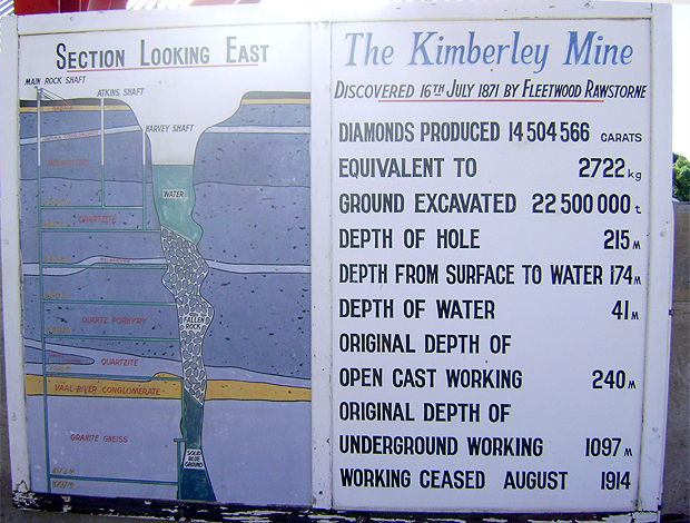 desenho da cratera